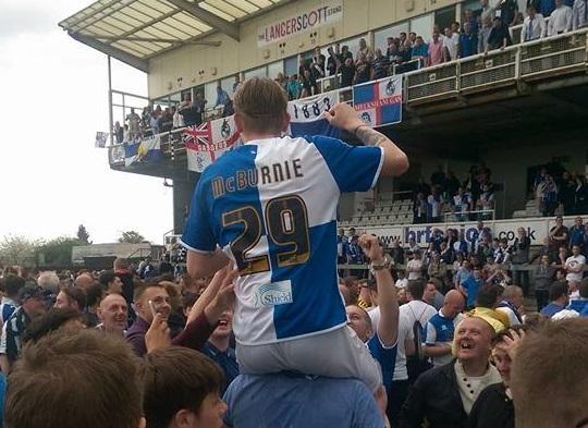 English-born Scottish footballer Oliver McBurnie being held aloft by Bristol Rovers fans celebrating the team's promotion from EFL League Two to EFL League One in 2016. McBurnie had been on loan with Rovers from Swansea City for the latter part of the season.